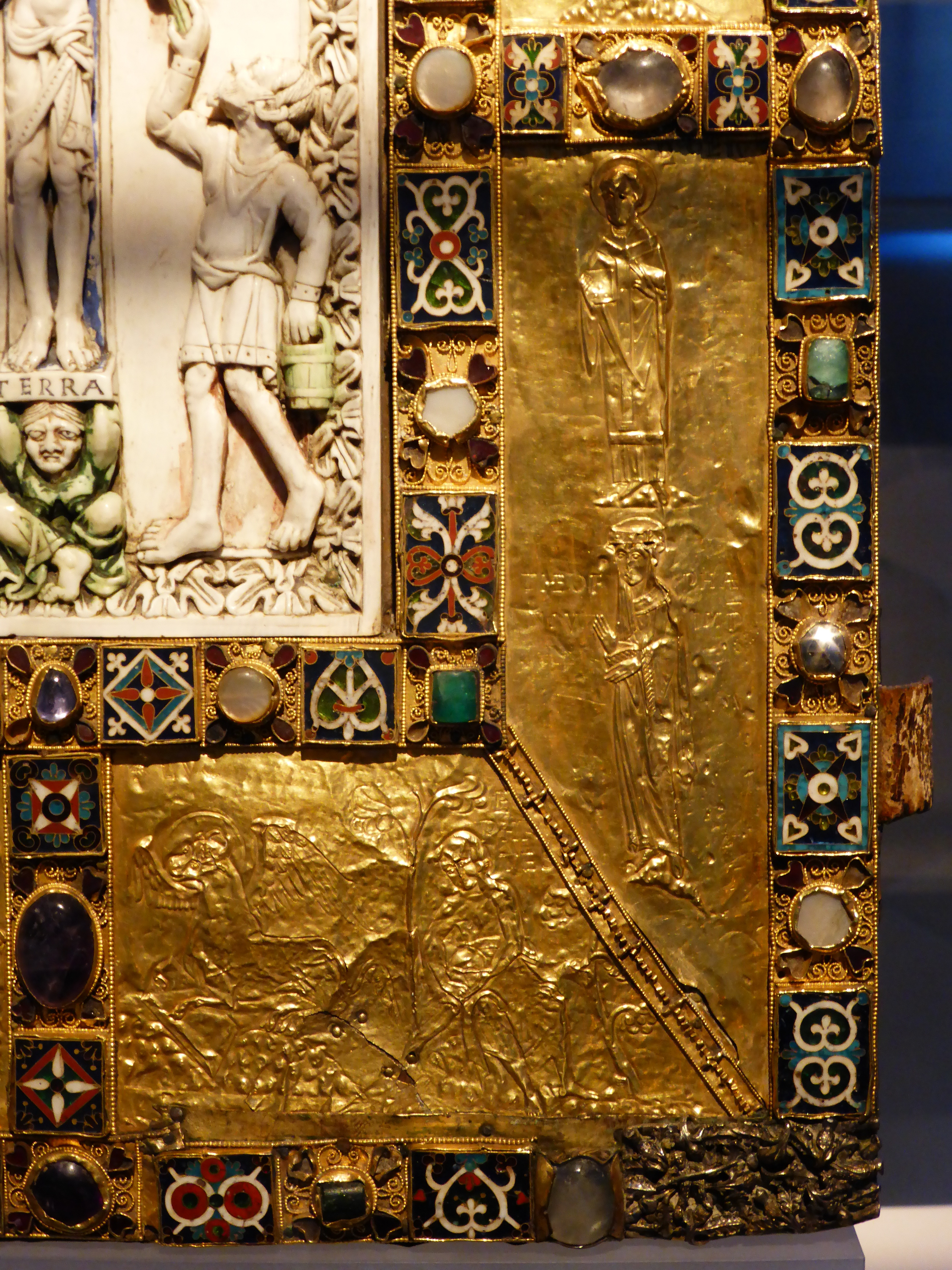 Germany, Bayern, Nuremberg